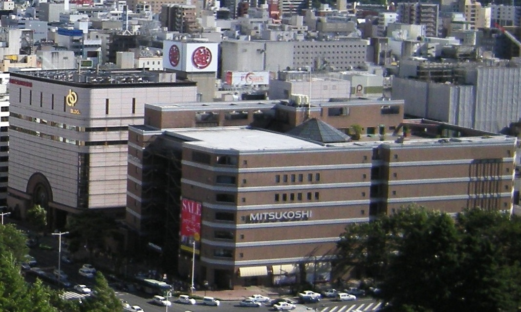 Bird-eye view of the Mitsukoshi Departmentstore's buildings in Sendai, Japan.